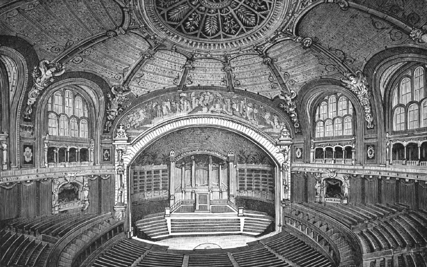 Engraving of the Salle des Fêtes in the Palais du Trocadéro with the Cavaillé-Coll organ